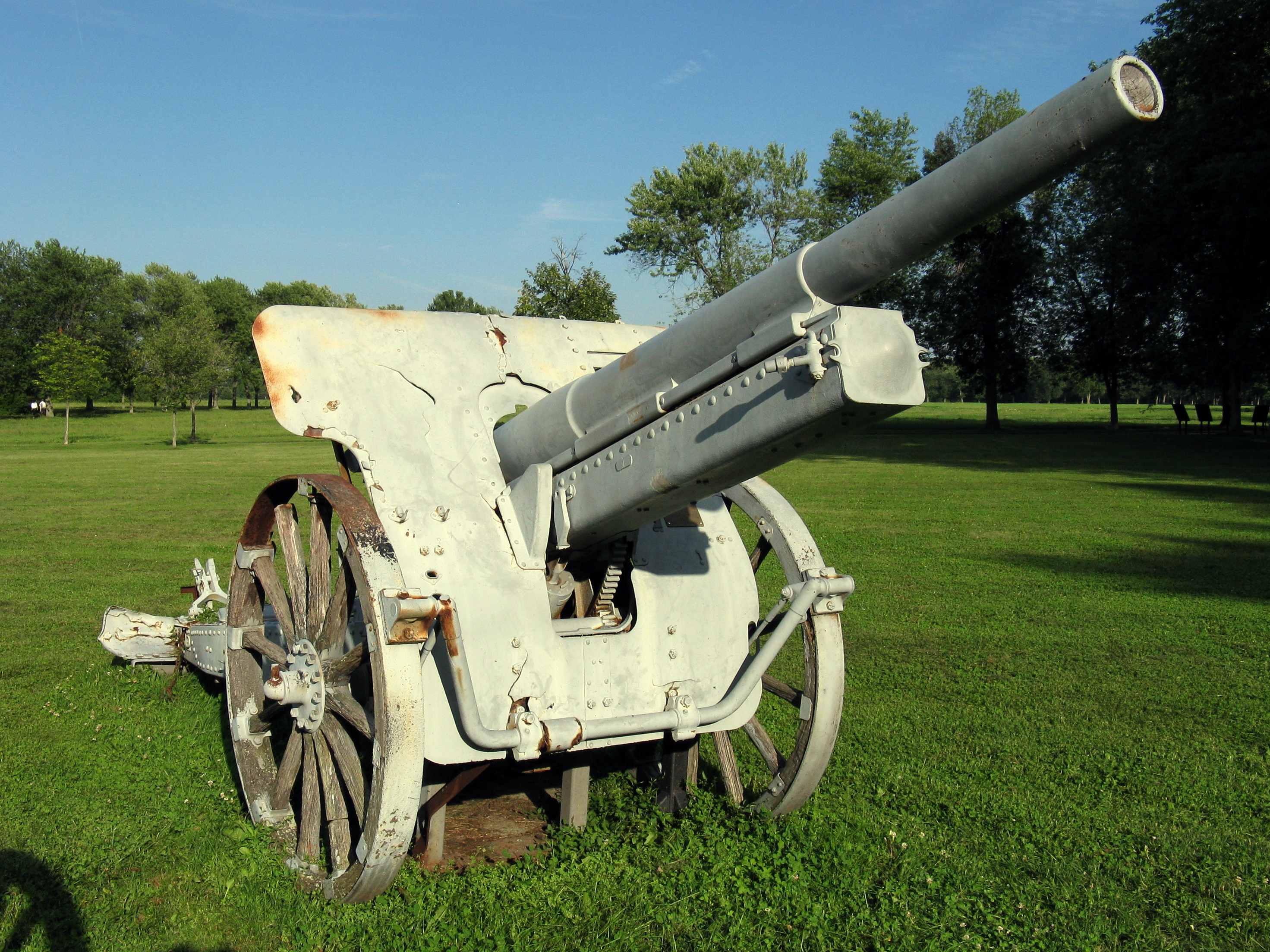 German 10 cm Kanone 14 (105 mm canon) displayed at Butler's Barracks, Niagara-on-the-Lake, Ontario. Stamp on gun indicates it was made in 1916 by Krupp.